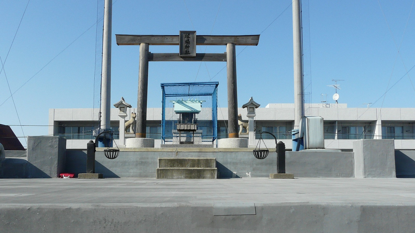 Nagoya_Baseball_Stadium_04